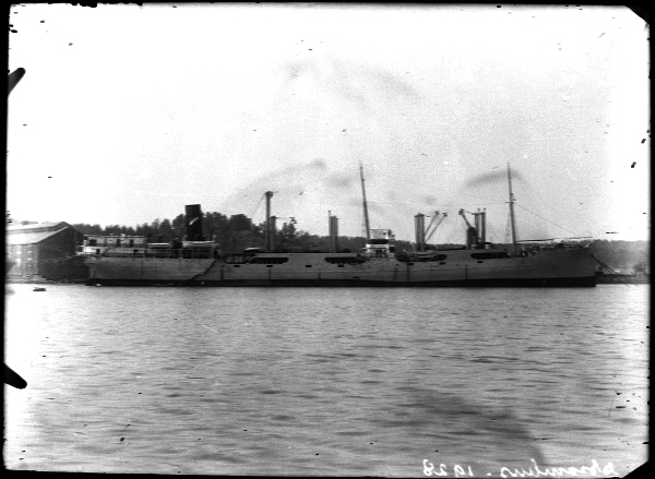 Whaling factory Strombus (1900)